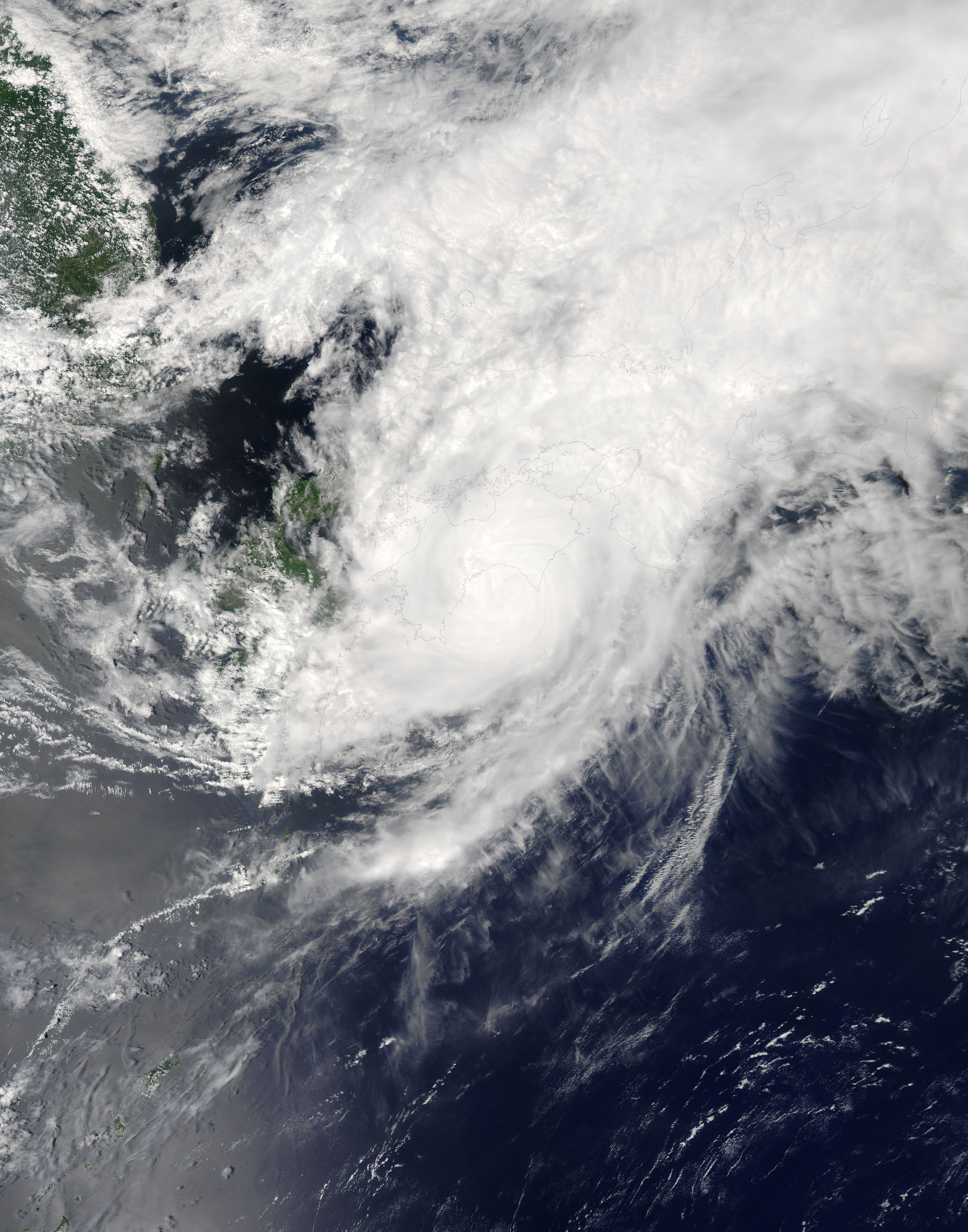 Tropical Storm Nanmadol (05W) over southern Japan